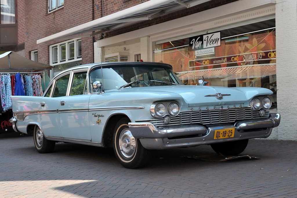 Chrysler New Yorker (1959), Oldtimershow Dorpsstraat 2010.